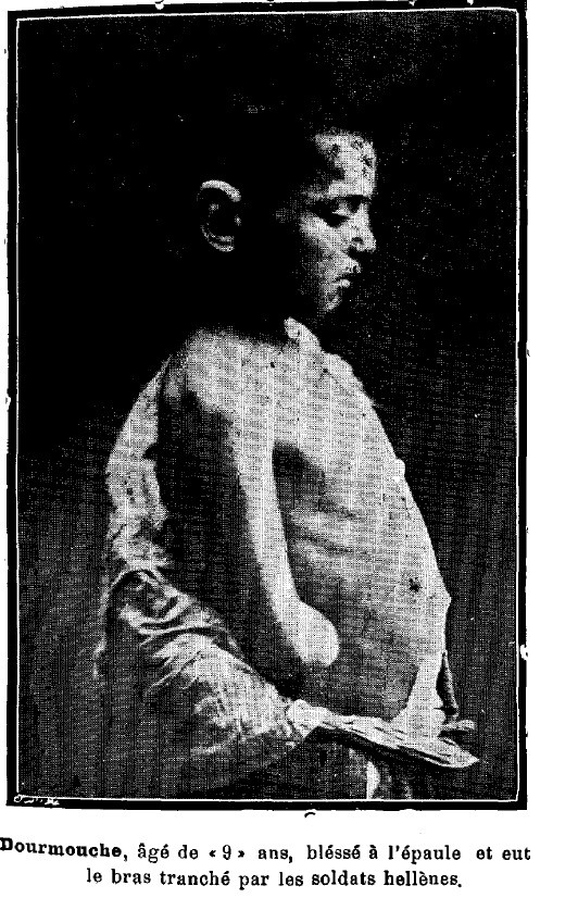 Dourmouche, a 9 year old Muslim boy who was wounded by Greek soldiers at his arm and shoulder, his hand cut off. 1921.